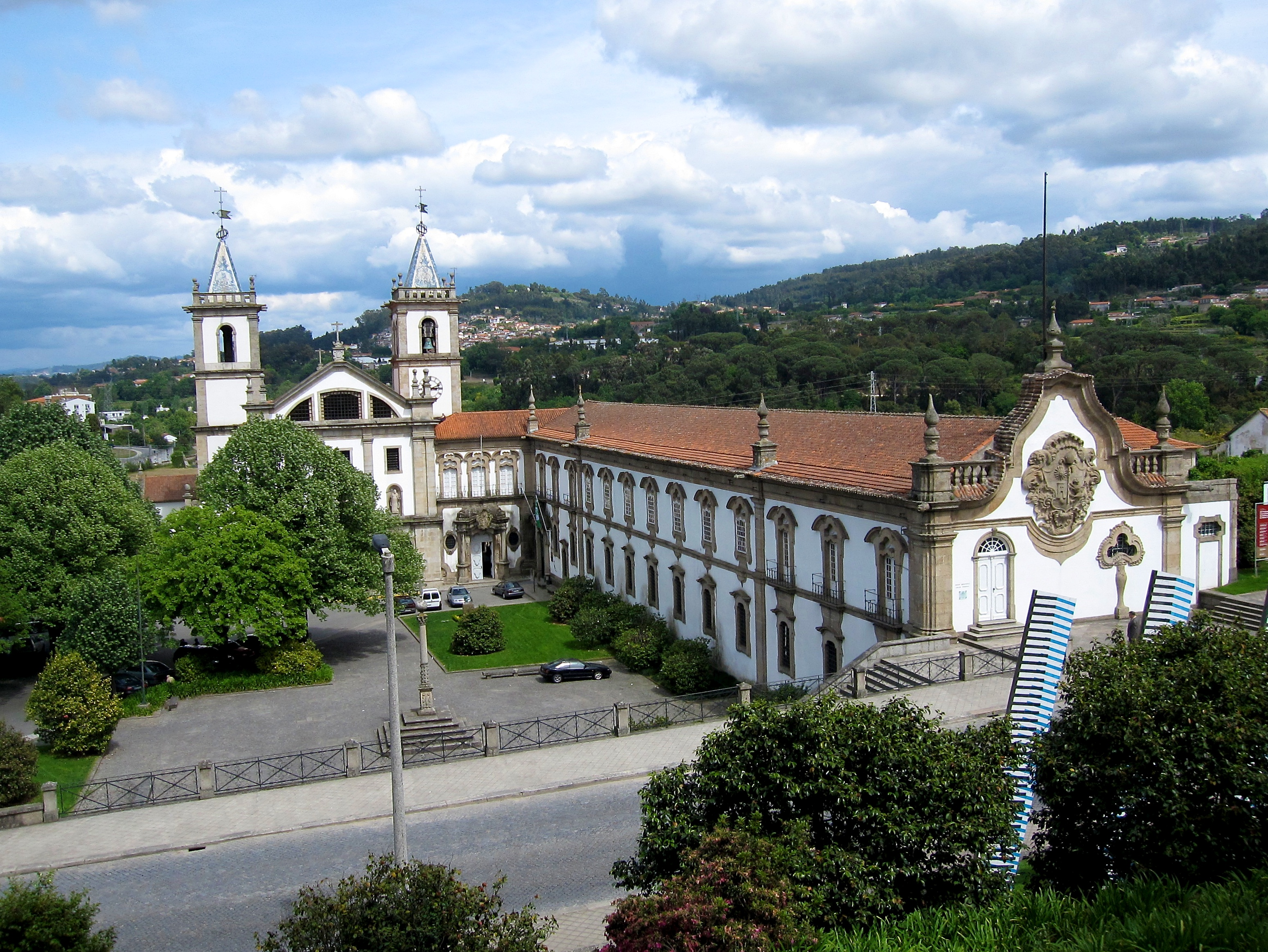 This file was uploaded for Wiki Loves Monuments in Portugal with the unique identifier 70416.